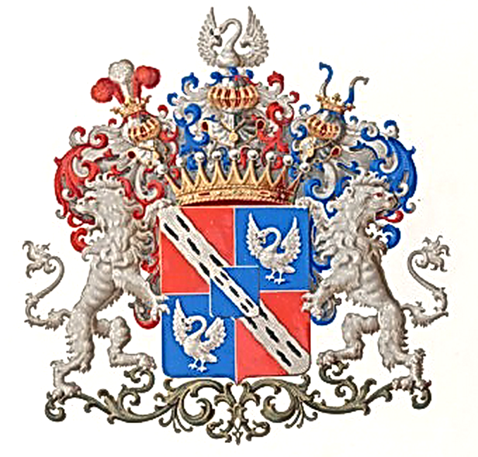 Coat of Arms of family counts Igelstrom